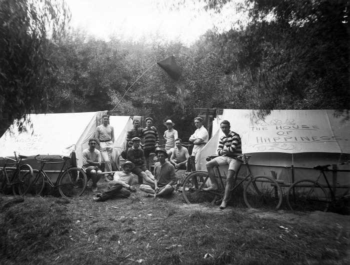 Extended information on origin webpage reads: "Camping scene showing a group of eleven young men next to two tents and surrounded by trees. One of the tents has "The house of happiness" written upon the ceiling. Four bicycles are also visible."